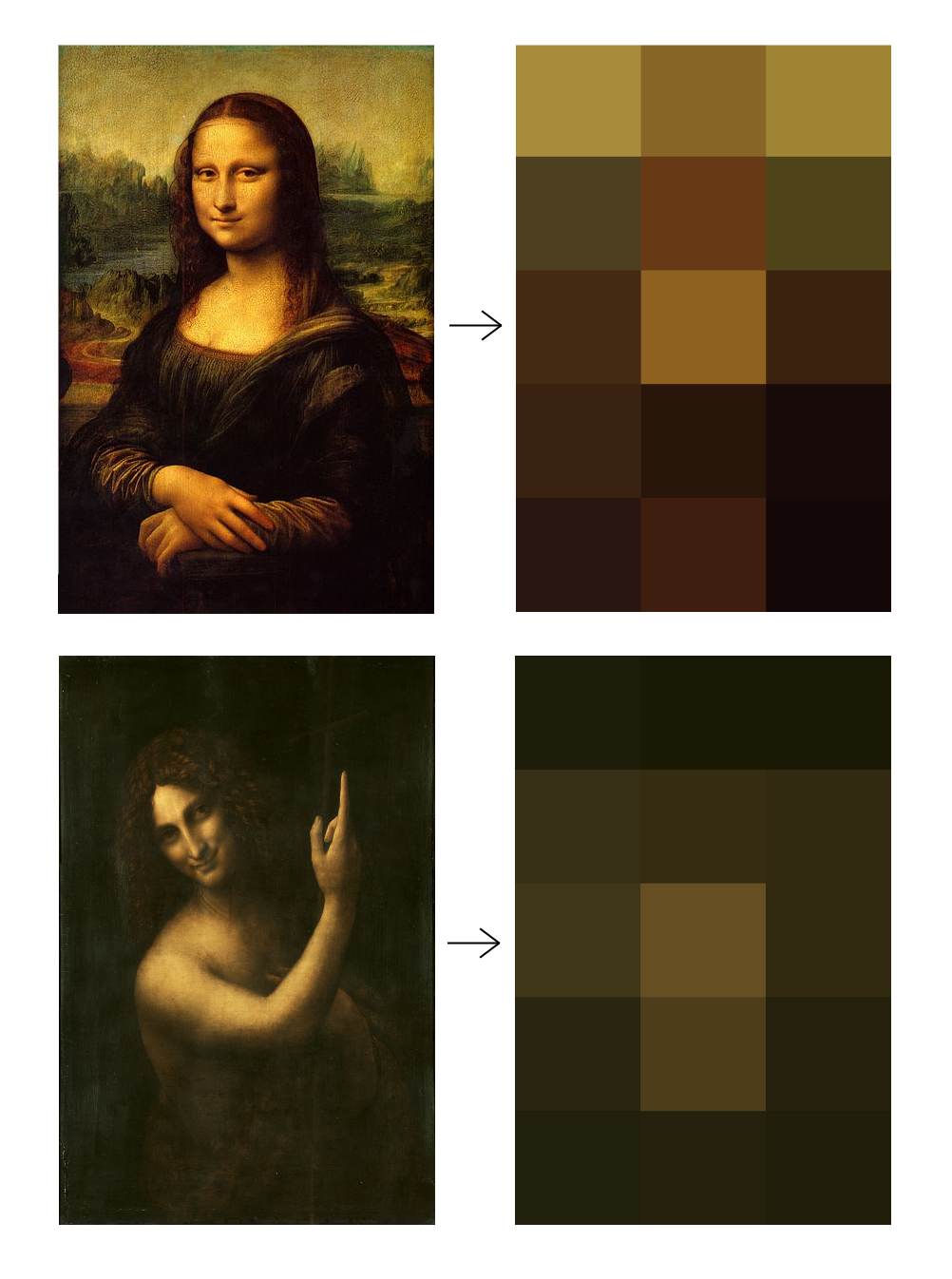 Pedagogical illustration of the principle of hashing functions: greatly reducing an image resolution will reduce a file size, but the resulting condensate is still sufficient to quickly tell two images apart in most cases